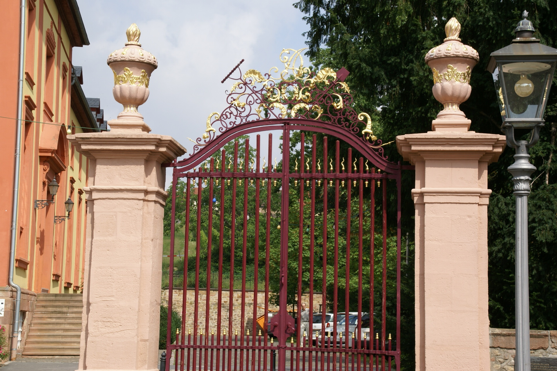 Former castle in Kirchheimbolanden, Germany Nowadays a senior residence